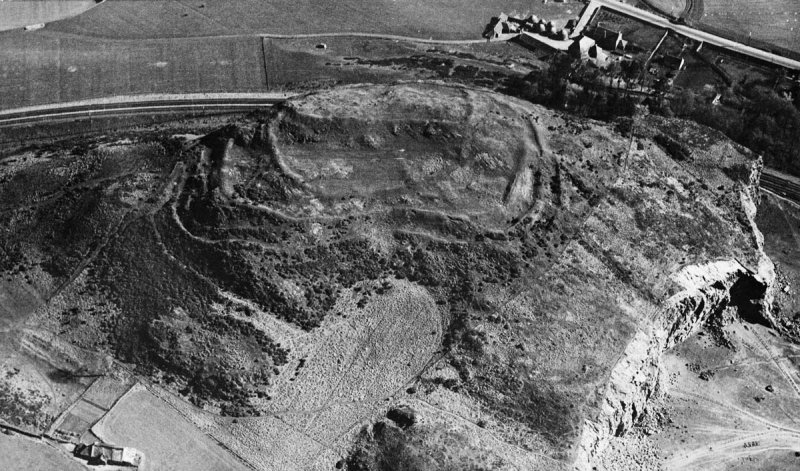 The Pictish fort of Clatchard Craig, Fife, Scotland. Photographed by the RAF in 1932.